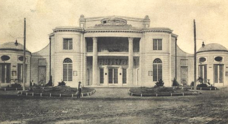 Jeno Jancovics Theatre and Cinema from Cluj-Napoca, Romania (rebuild in 1961)